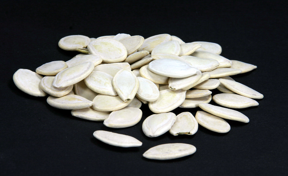 dried seed of pumpkin